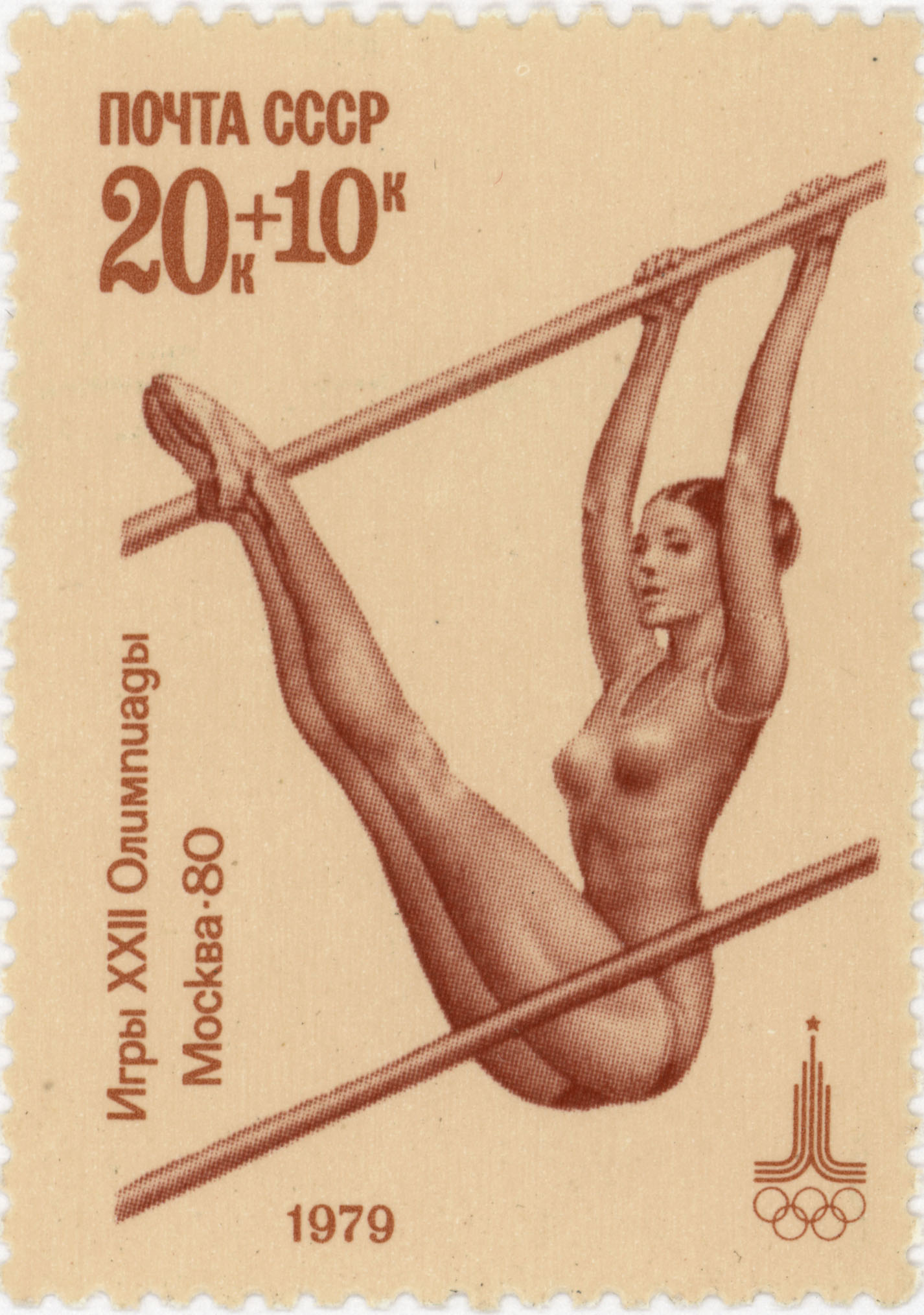 USSR postage stamp. 1979. XXII Summer Olympics. Uneven parallel bars